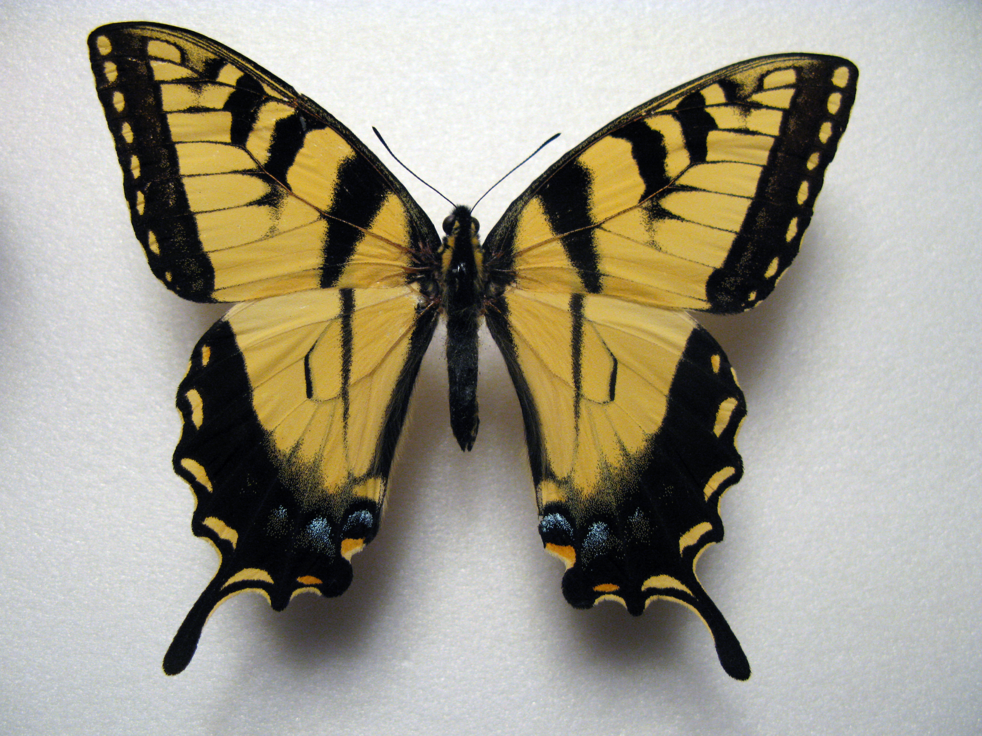 Papilio glaucus (male)